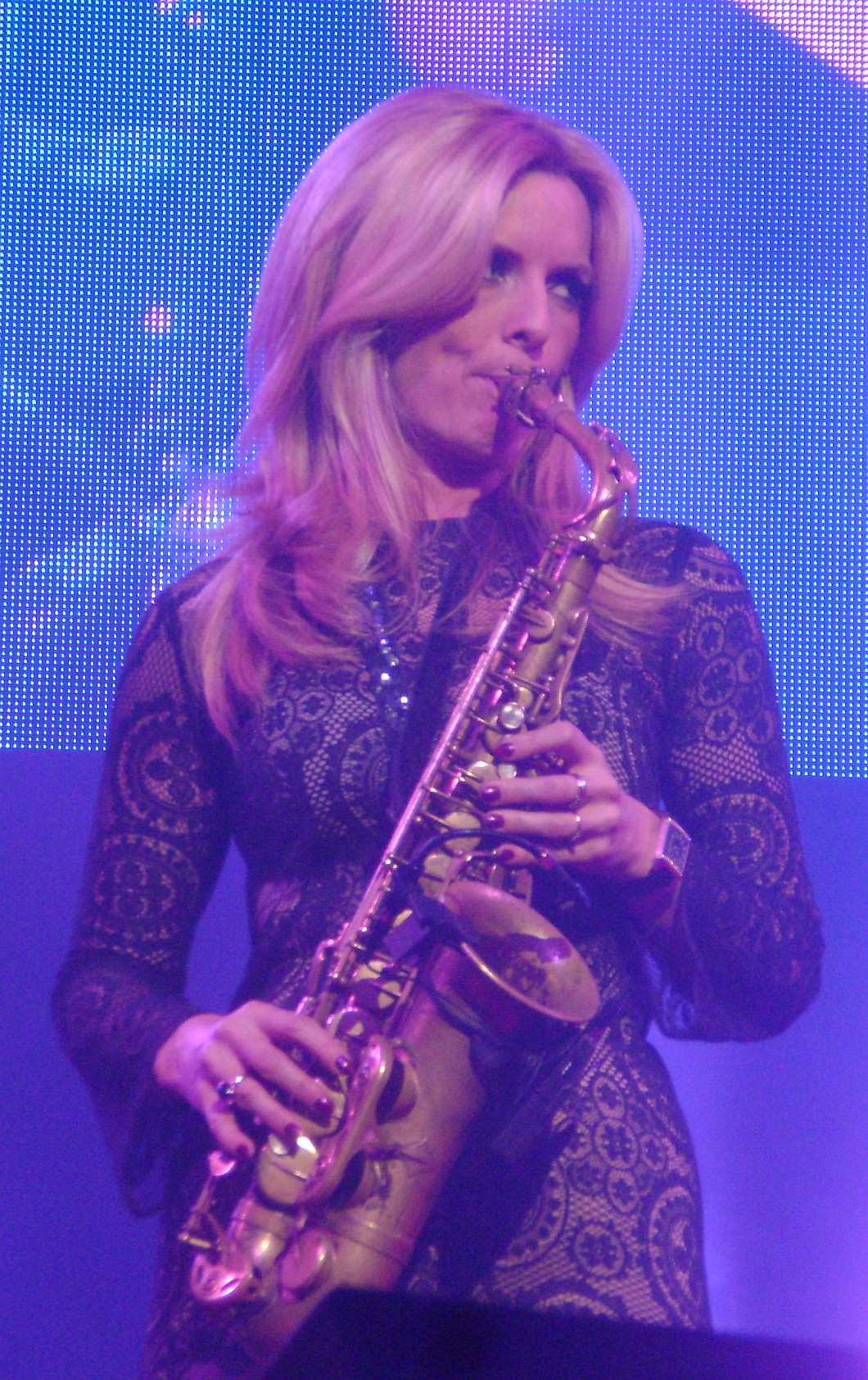 Dutch alto saxophonist Candy Dulfer in the HMH, Amsterdam, December 3, 2009